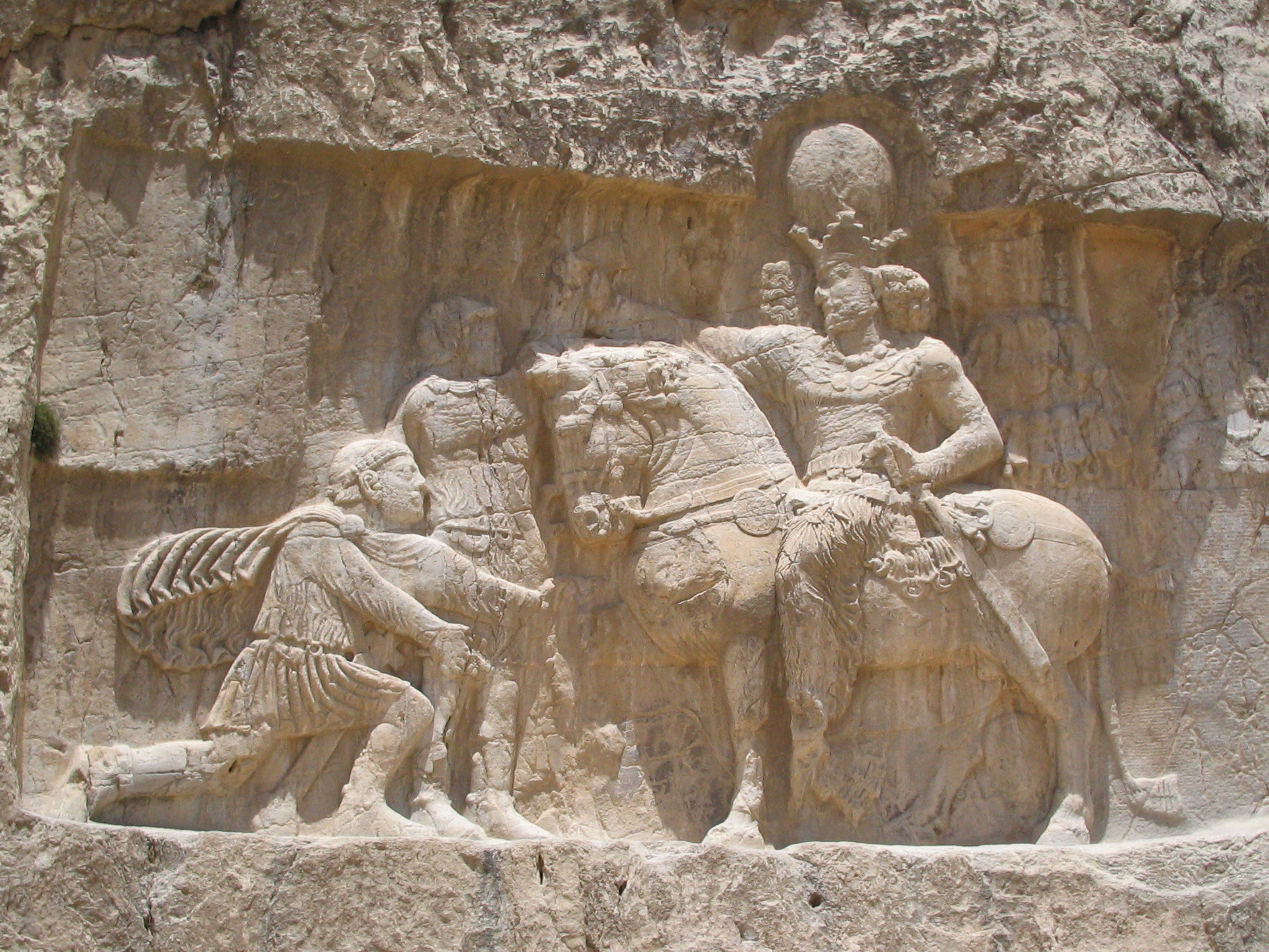 A bas relief sculpture at Naqsh-e Rostam, Iran, depicting the triumph of Shapur I over the Roman Emperor Valerian.